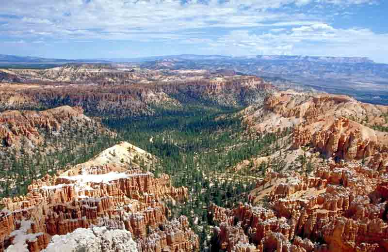 Bryce Canyon National Park, Utah, USA